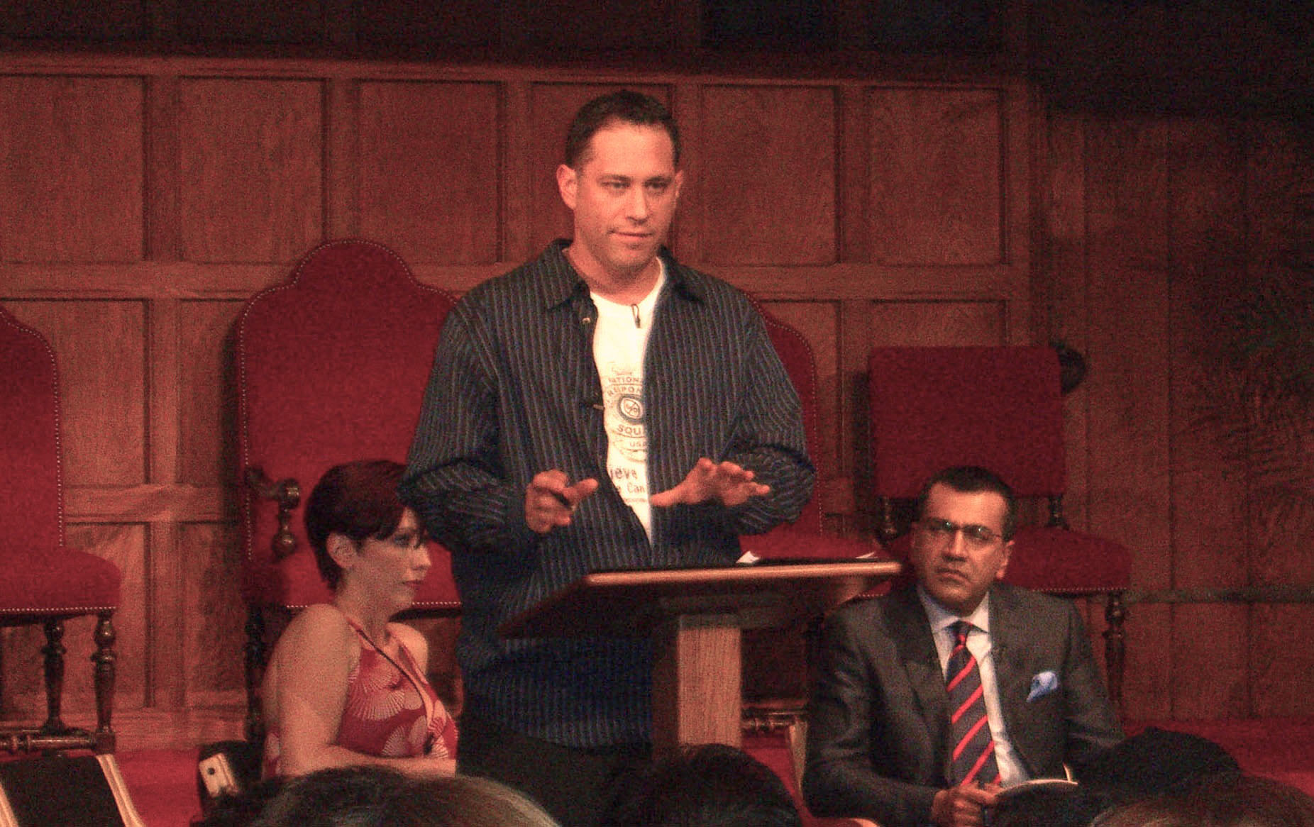 Rational Response Squad founder Brian Sapient (at podium) and RRS member Kelly O'Connor (seated at left) at a debate with Way of the Master at Calvary Baptist Church in Manhattan, May 5, 2007. Seated at right is Nightline anchorman Martin Bashir.